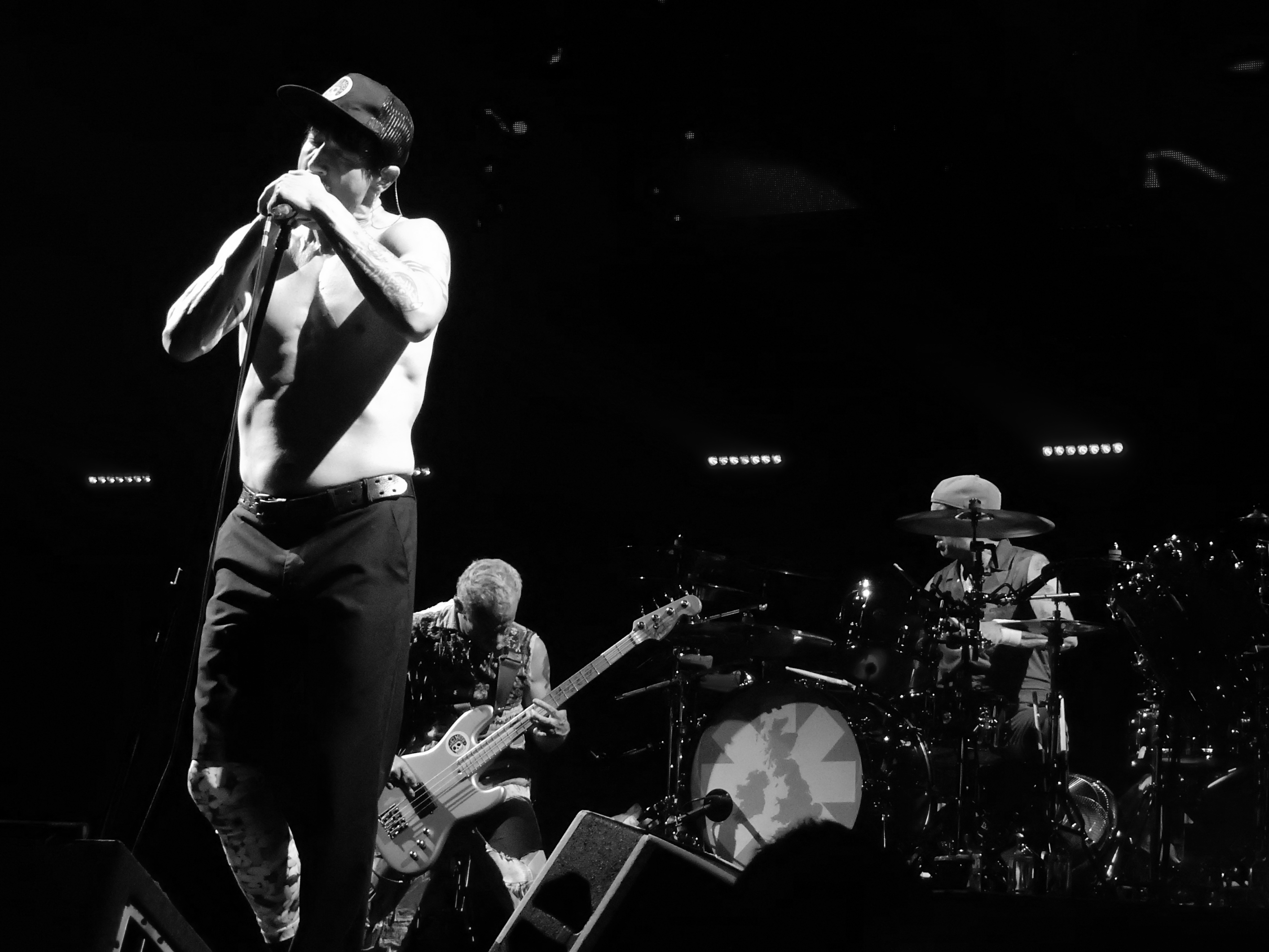 Red Hot Chili Peppers, O2 Arena, London